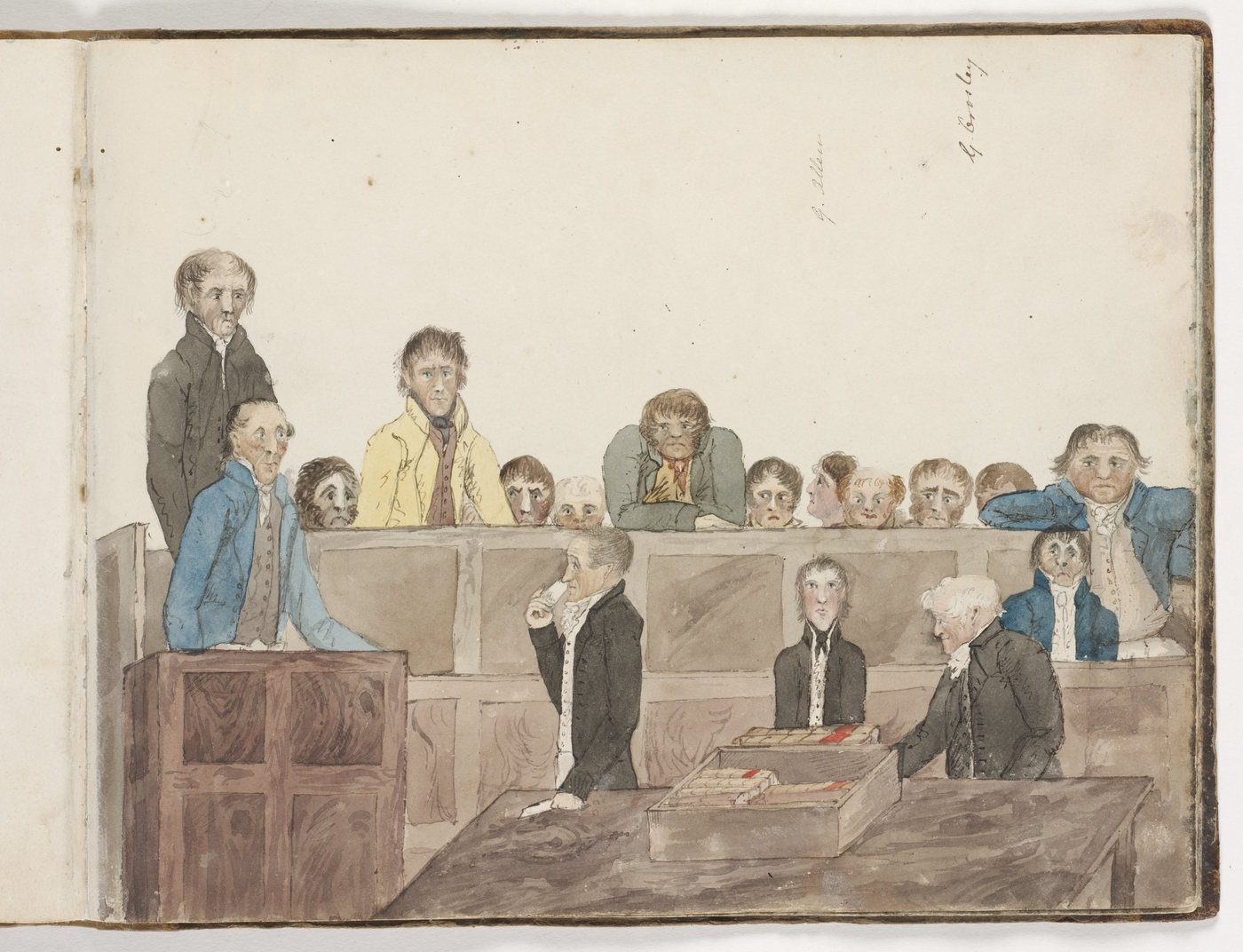 From a sketchbook in the State Library of New South Wales.